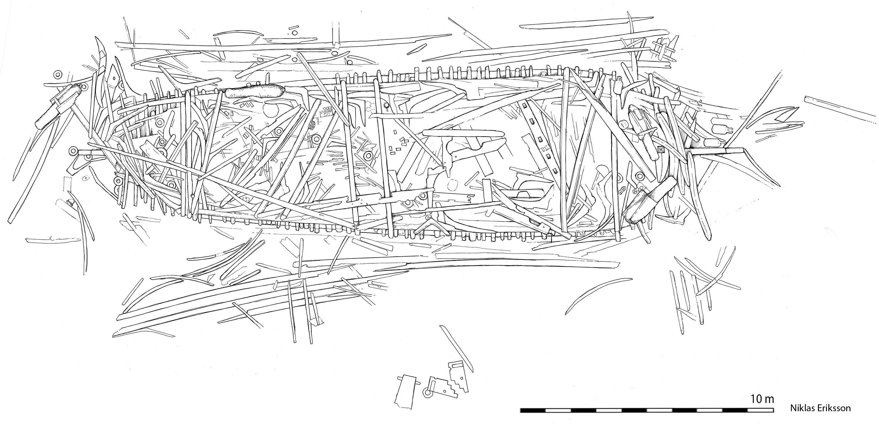 Plan of the wreck Resande mannen, sunk 1660. Made after fieldwork in 2012. The fieldwork has been described in Resande mannen (1660) : marinarkeologisk rapport 2012 / Niklas Eriksson, Carl During, Joakim Holmlund, Johan Rönnby, Ingvar Sjöblom, Michael Ågren. - 2013. - ISBN: 9789198034608